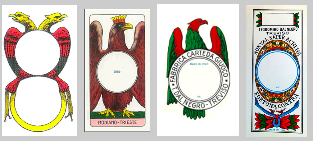 Composite photograph of four different traditional Ace of Coins designs from regional Italian card decks (Napoletane, Piacentine, Siciliane, Trevigiane)